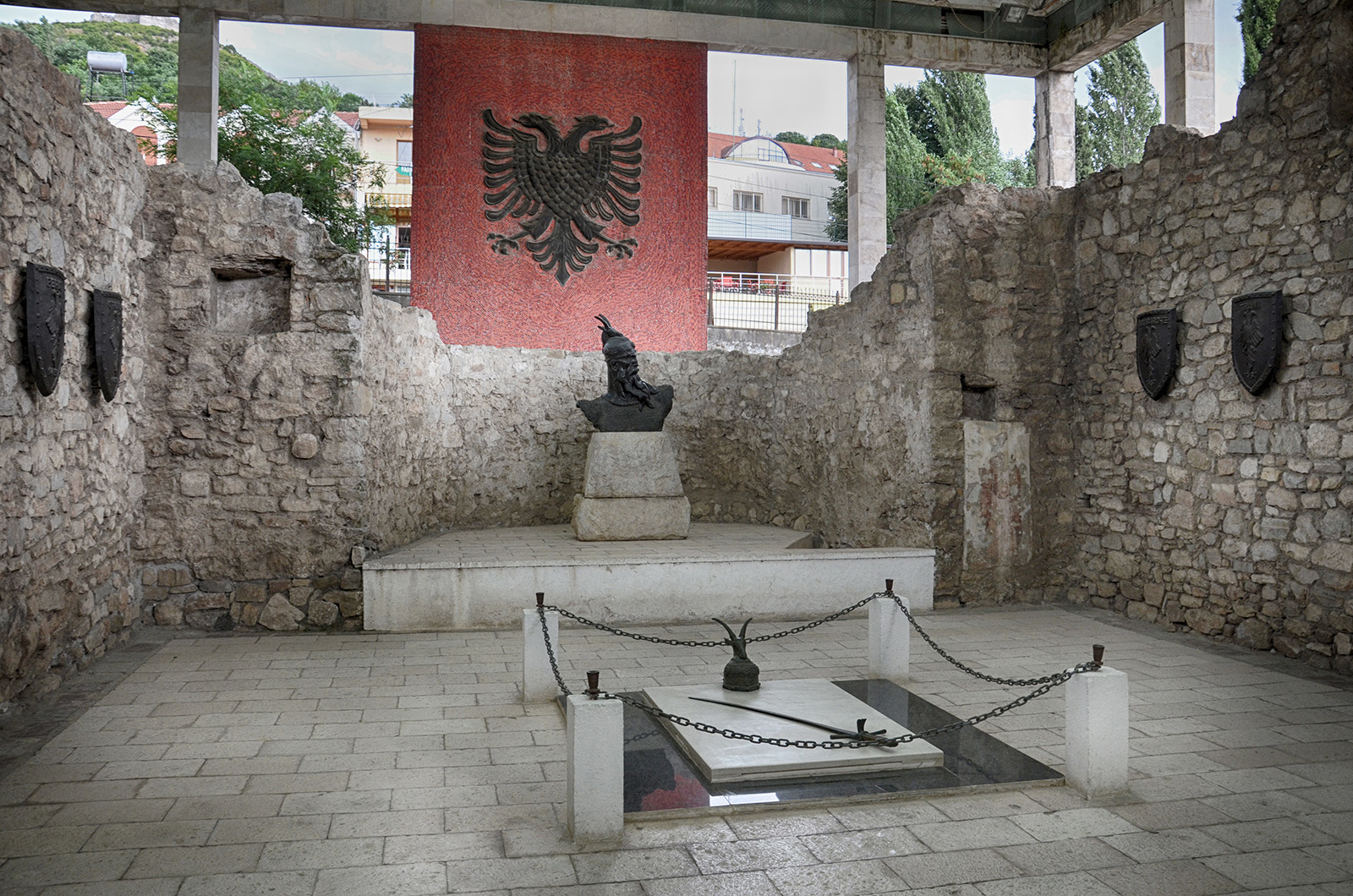 The Skanderbeg Memorial in Lezhë, Albania